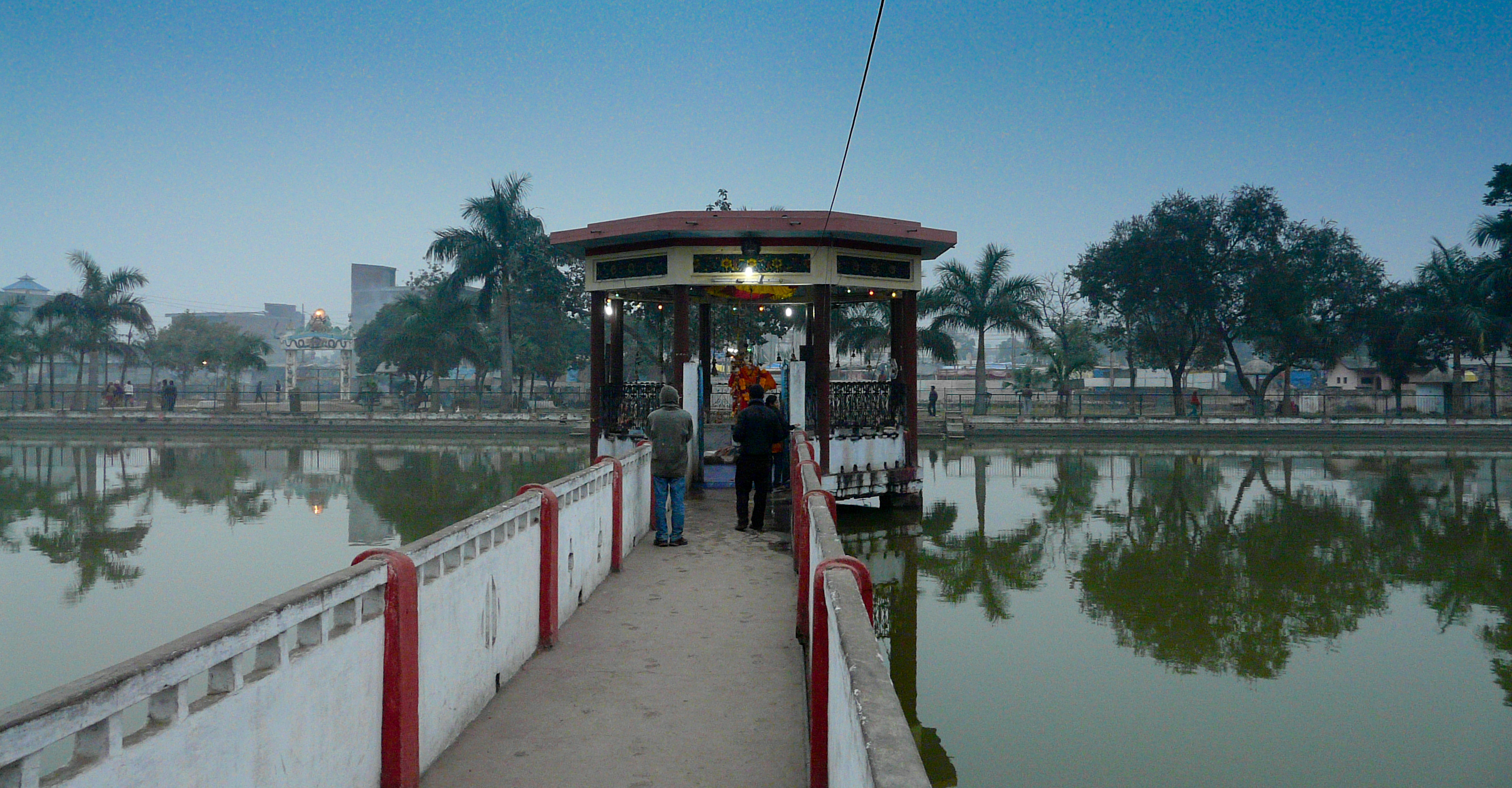 Skyline of Nepalgunj city, showing the statue of Mahadev in the foreground.